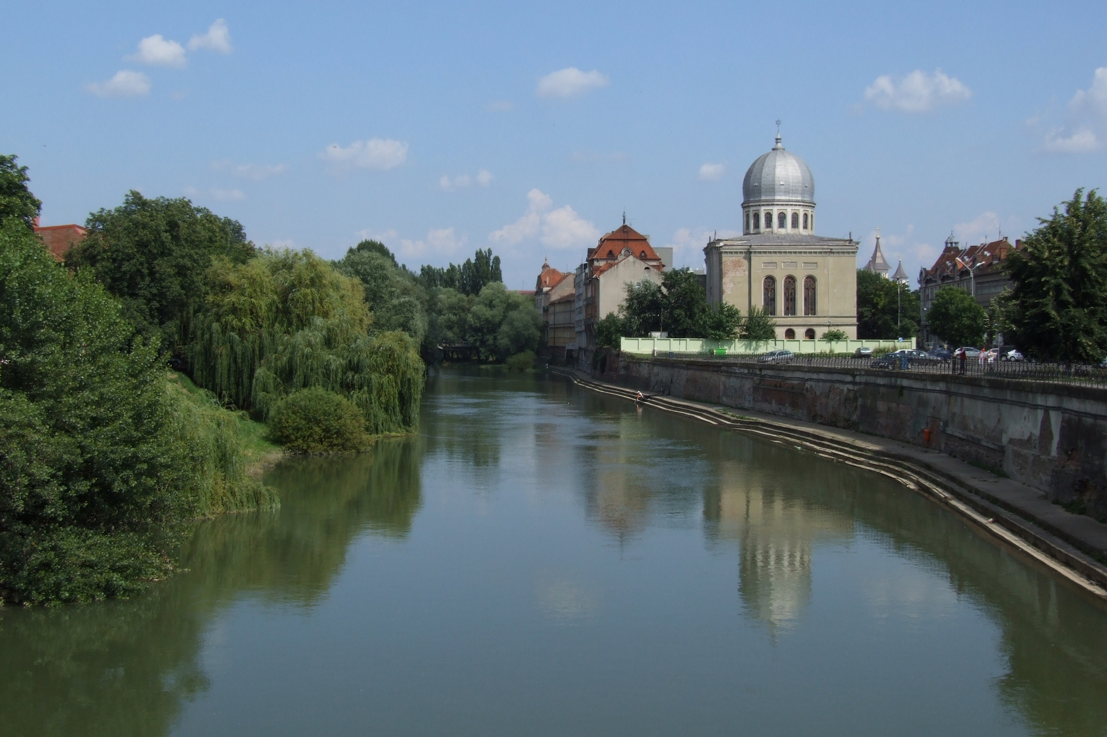 Oradea (Nagyvárad) - Crişul Repede/Sebes-Körös river and synagogue